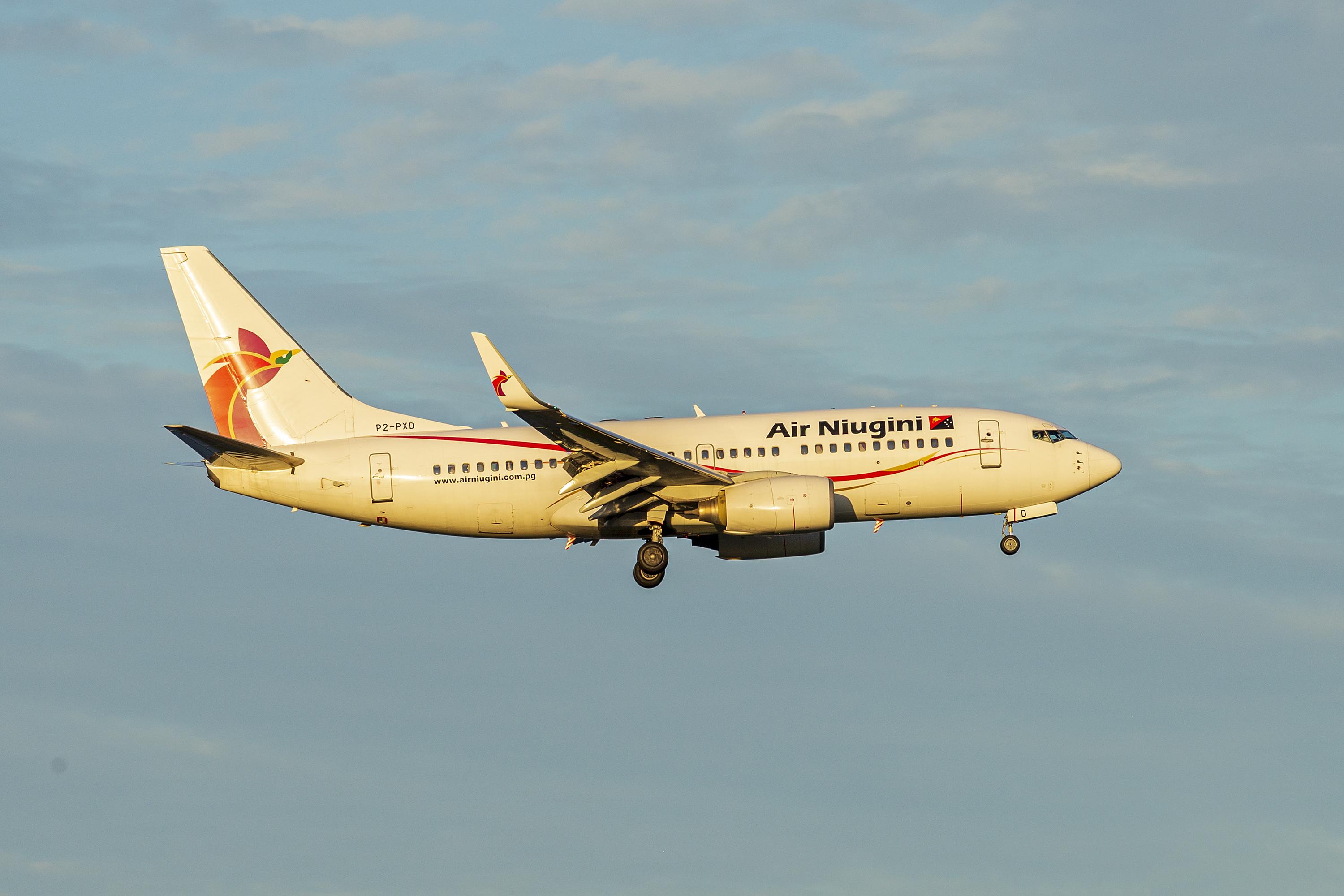 Air Niugini (P2-PXD) Boeing 737-7L9(WL) on finals into Sydney Airport.